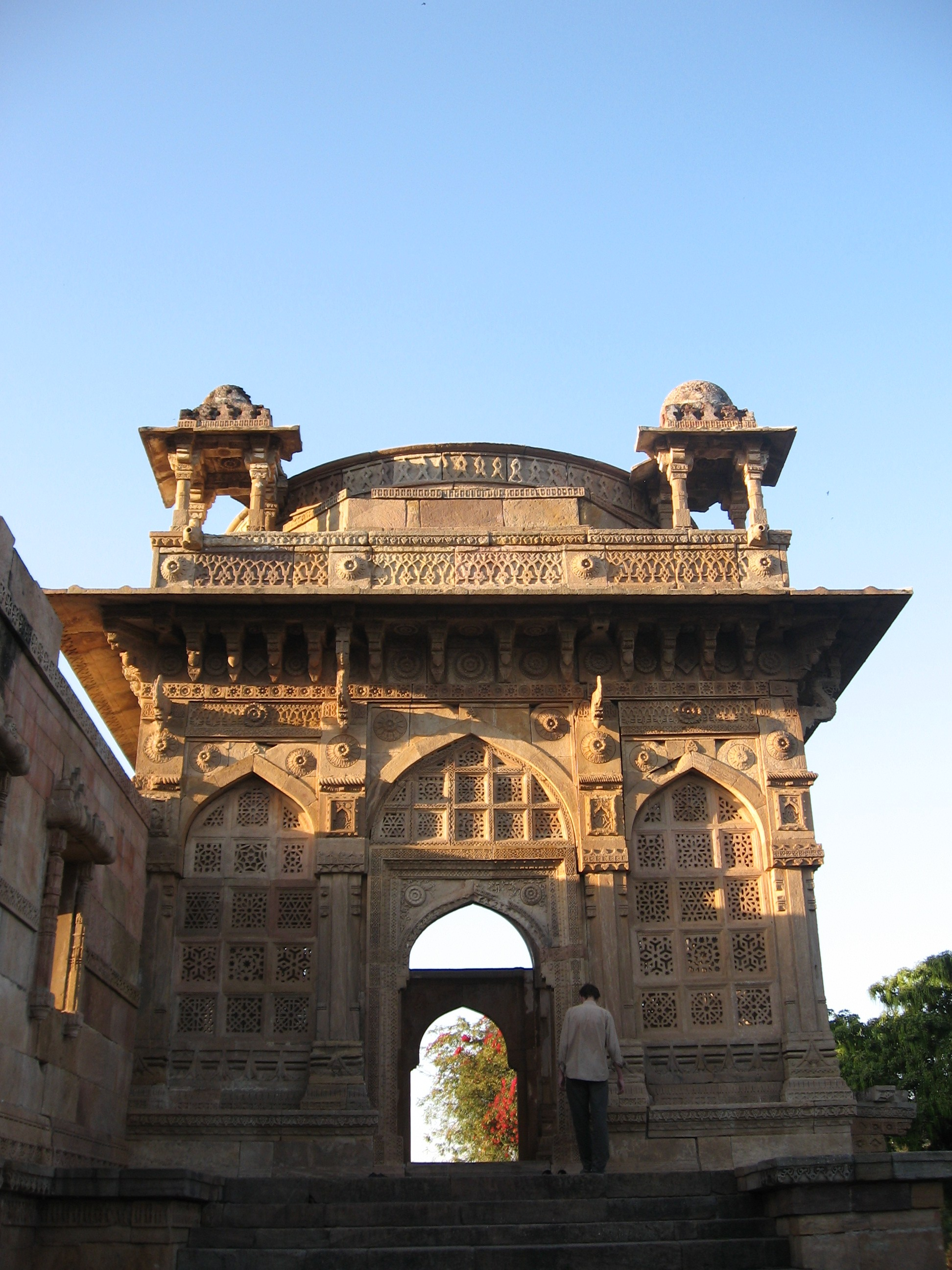 Gate of the Jama Masjid, Champaner, Gujarat